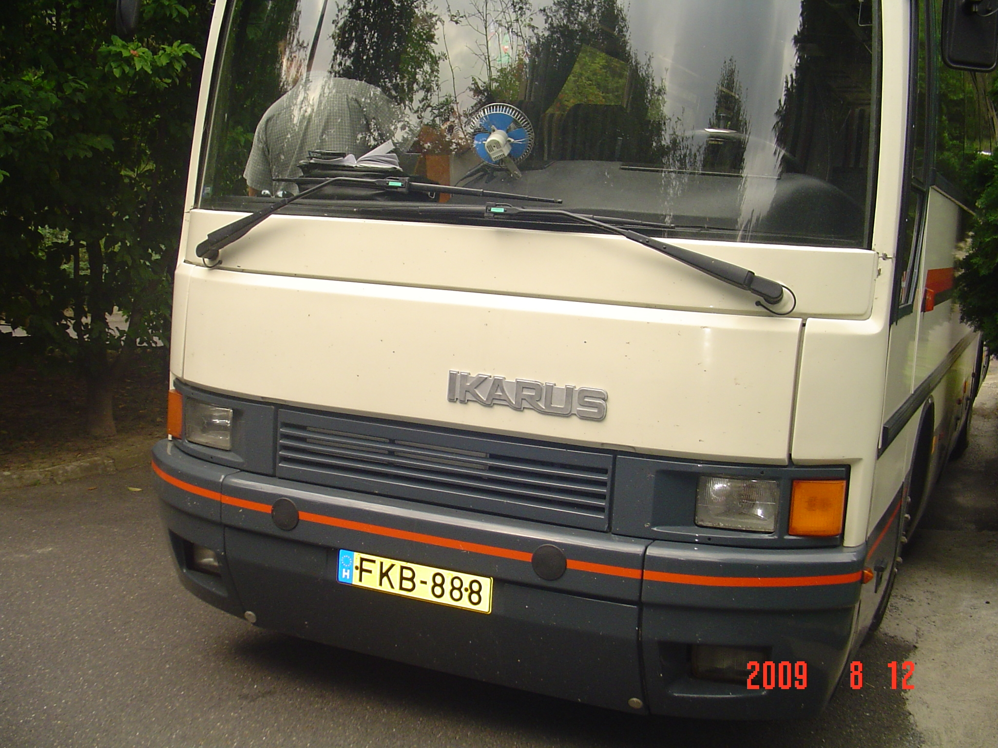 IKARUS 365 front side